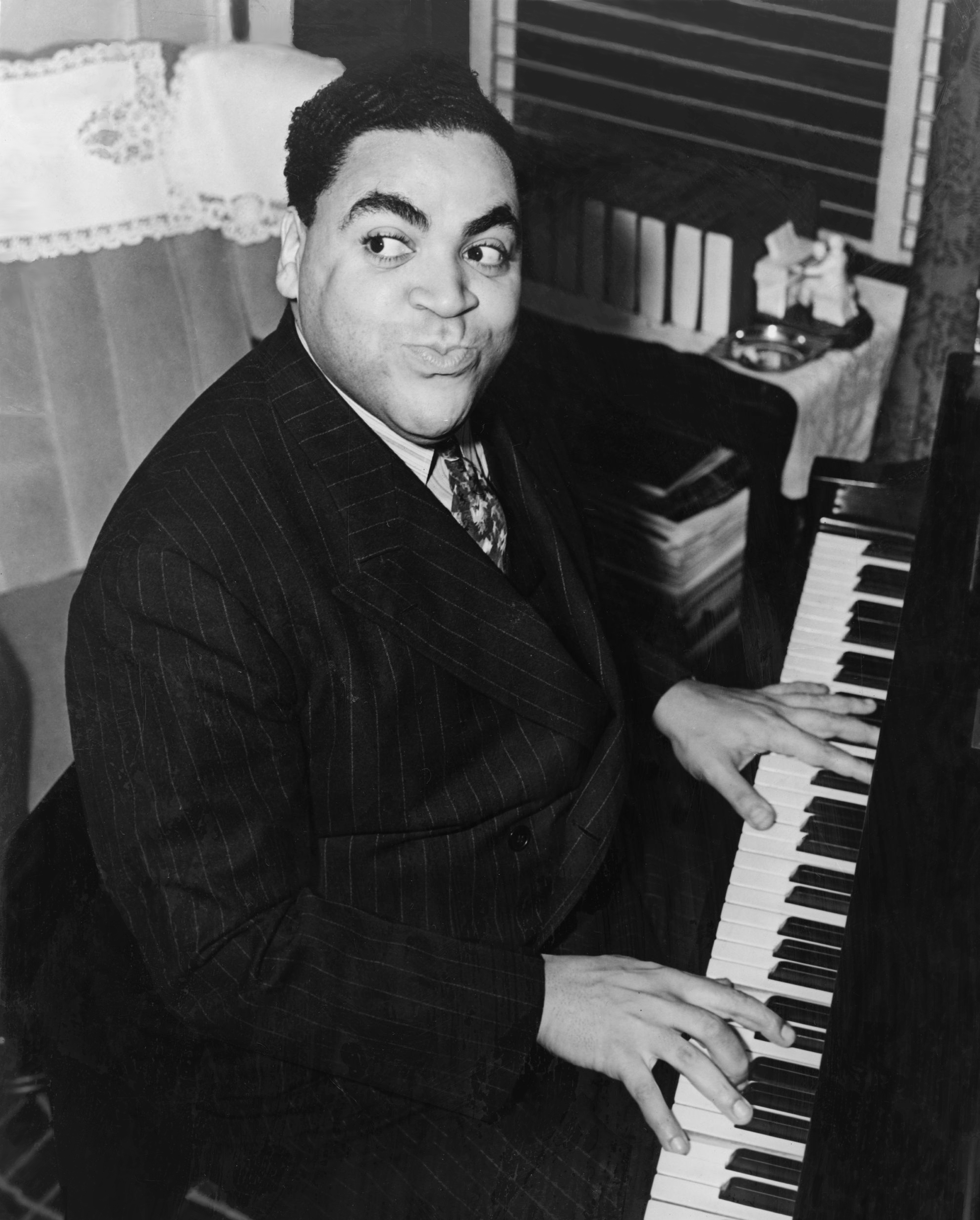 Fats Waller, three-quarter length portrait, seated at piano, facing front.